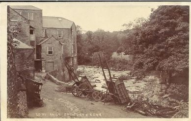 Old photo of Shotley Grove Mill. Taken about 1870